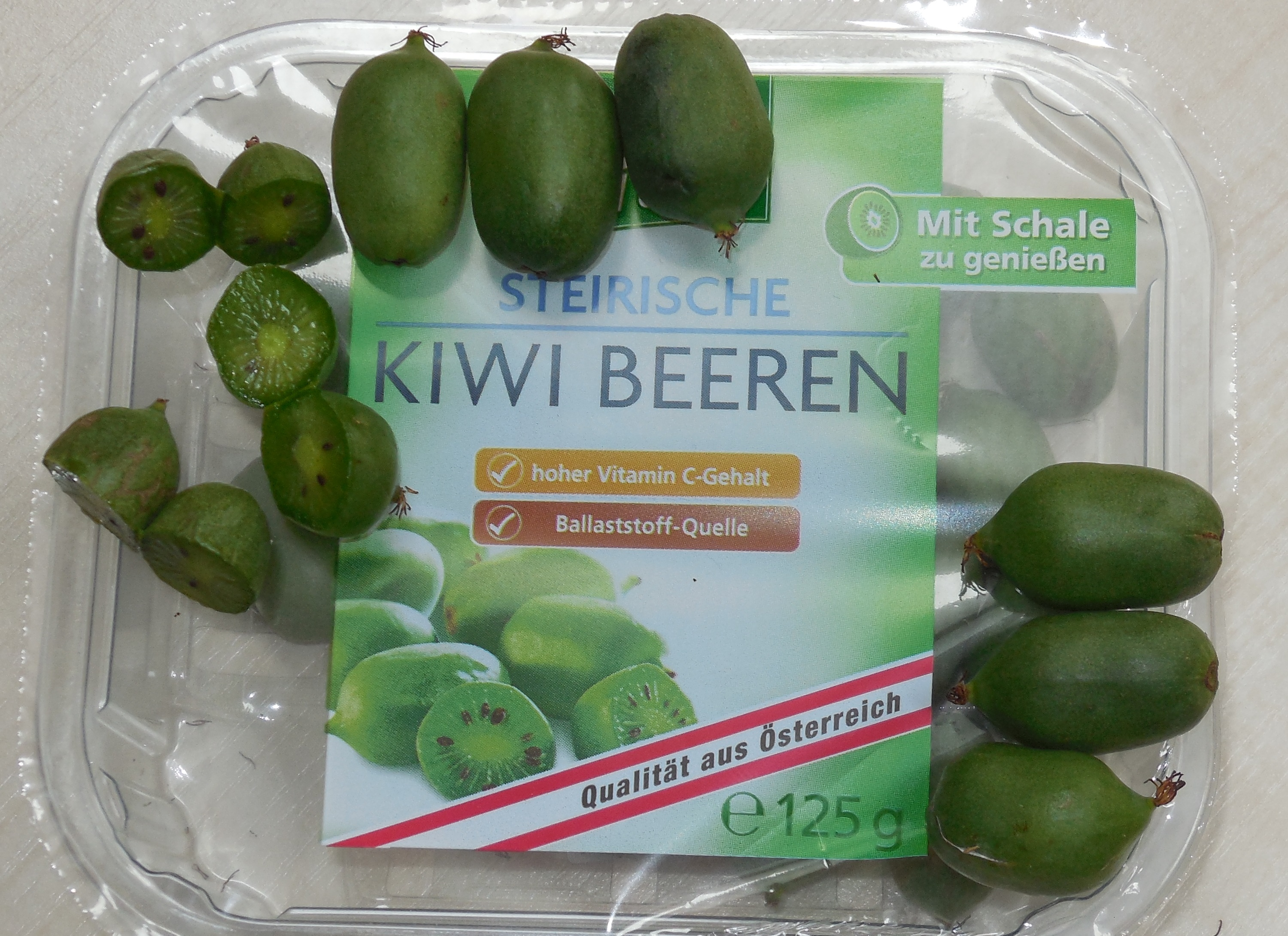 Actinidia arguta (hardy kiwi) in an Austrian supermarket